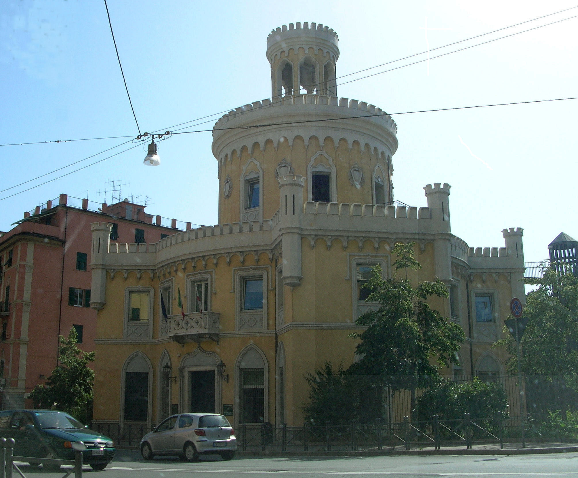 Genoa (Italy), quarter of Rivarolo, the Castle Foltzer